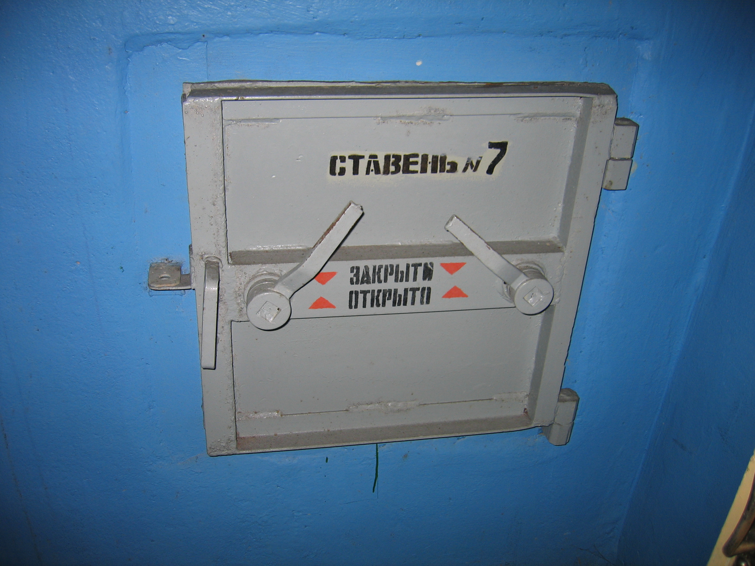 Tight door in bombproof shelter